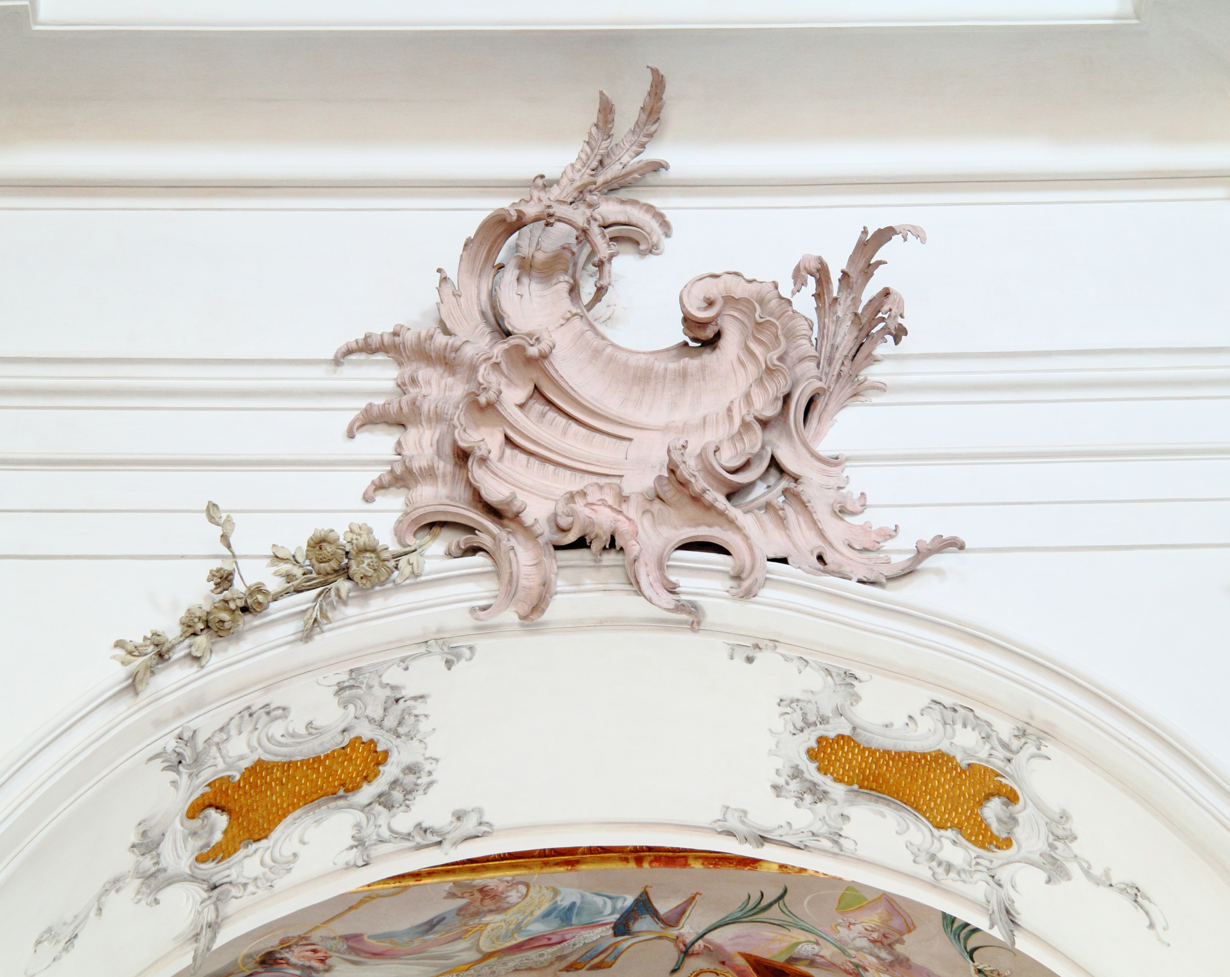 Amorbach Abbey, Odenwald forest, Bavaria/Germany, abbey church